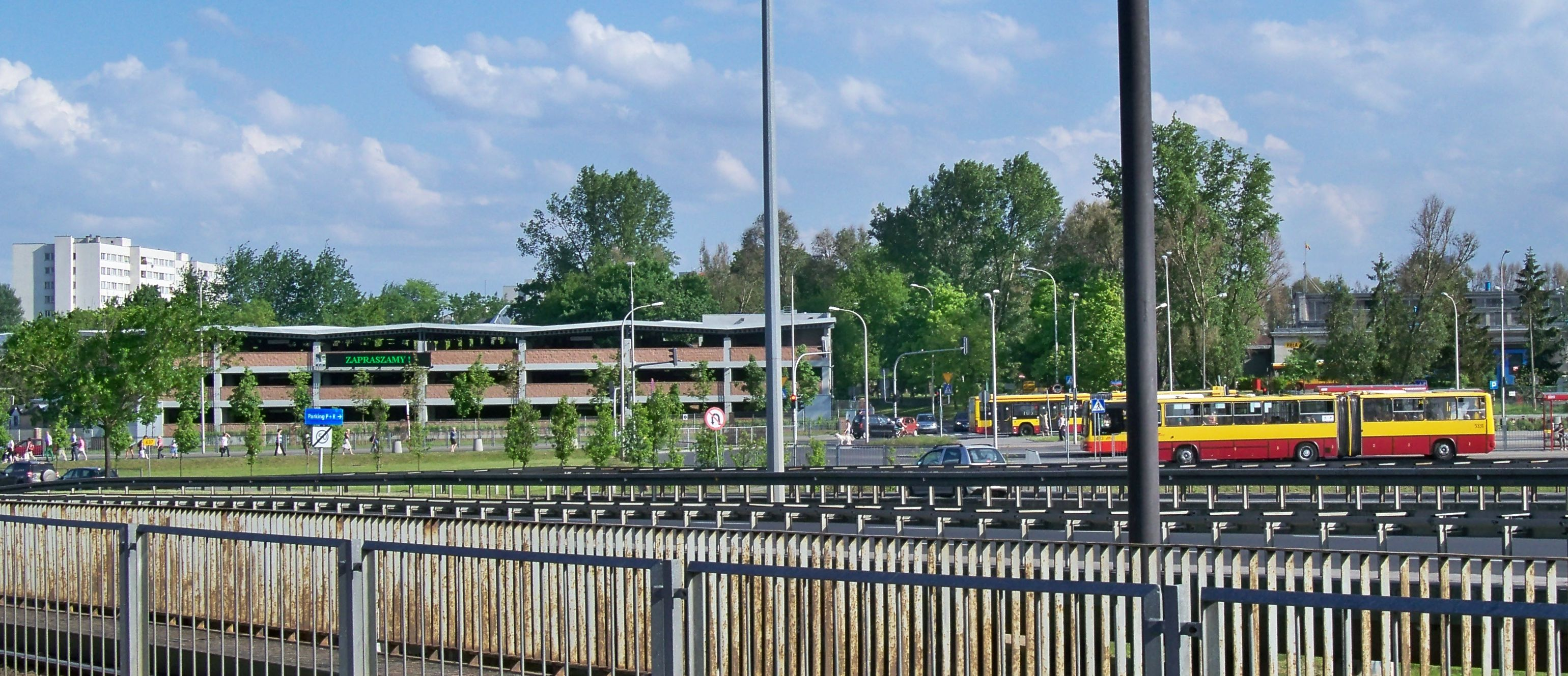 Park + Ride "Metro Marymont" system in Warsaw